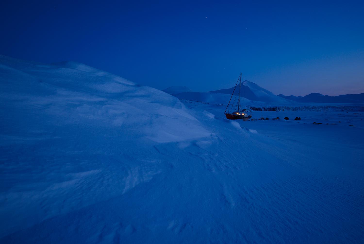 Functioning as a research station for EU DAMOCLES project, polar yacht Vagabond was winterizing in a row of five winters on the East coast of Spitsbergen (Storfjord), gathering a high volume of data about Arctic climate.